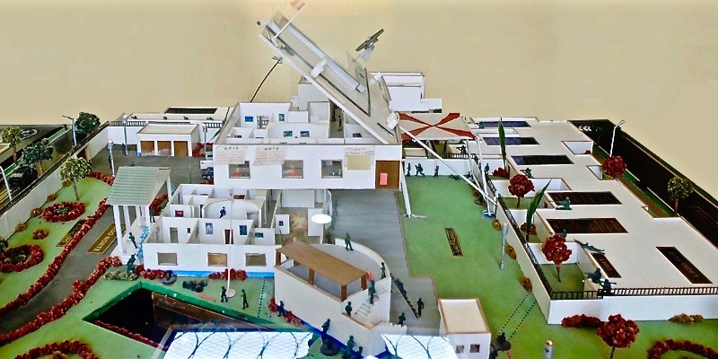 A model of Operation Chavín de Huántar presented during the 2013 commemoration of the operation.